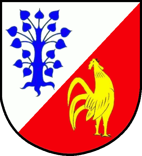 Coat of arms of the municipality Ottenbüttel in Schleswig-Holstein, Germany.